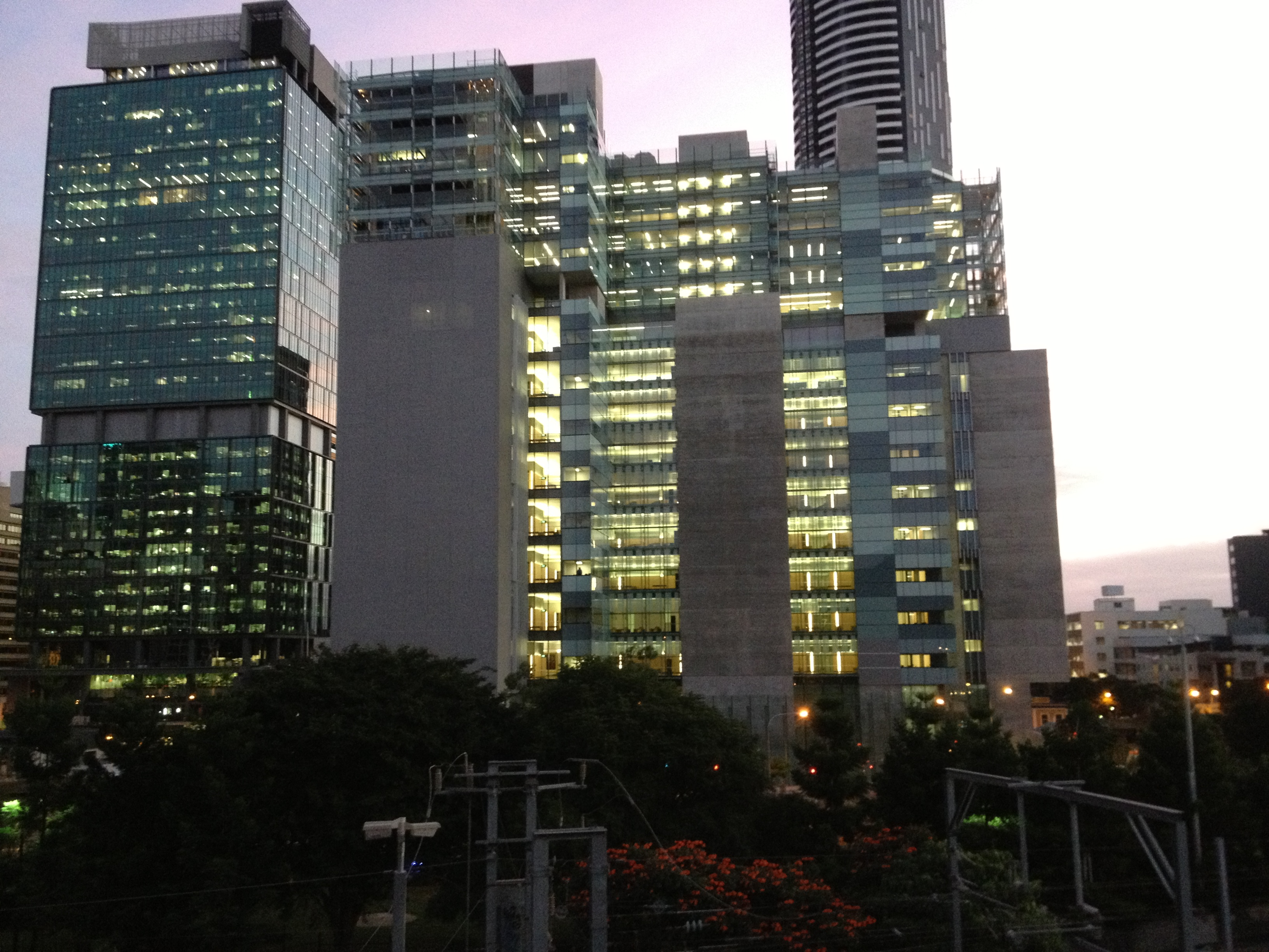 Brisbane Supreme and District Court at twilight in May 2013, viewed from Roma Parklands